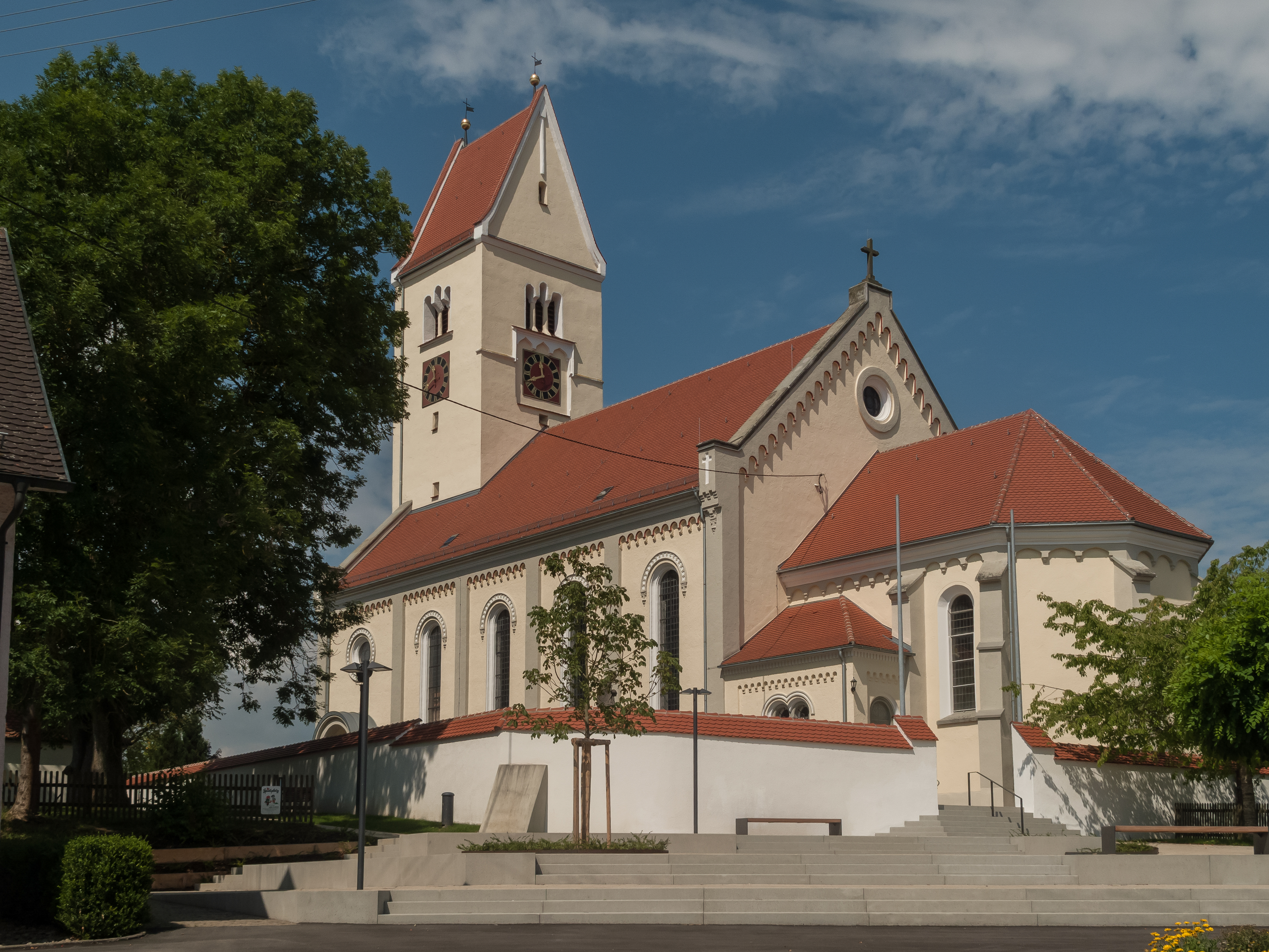 Ellwangen, church: Pfarrkirche Sankt Kilian und Ursula